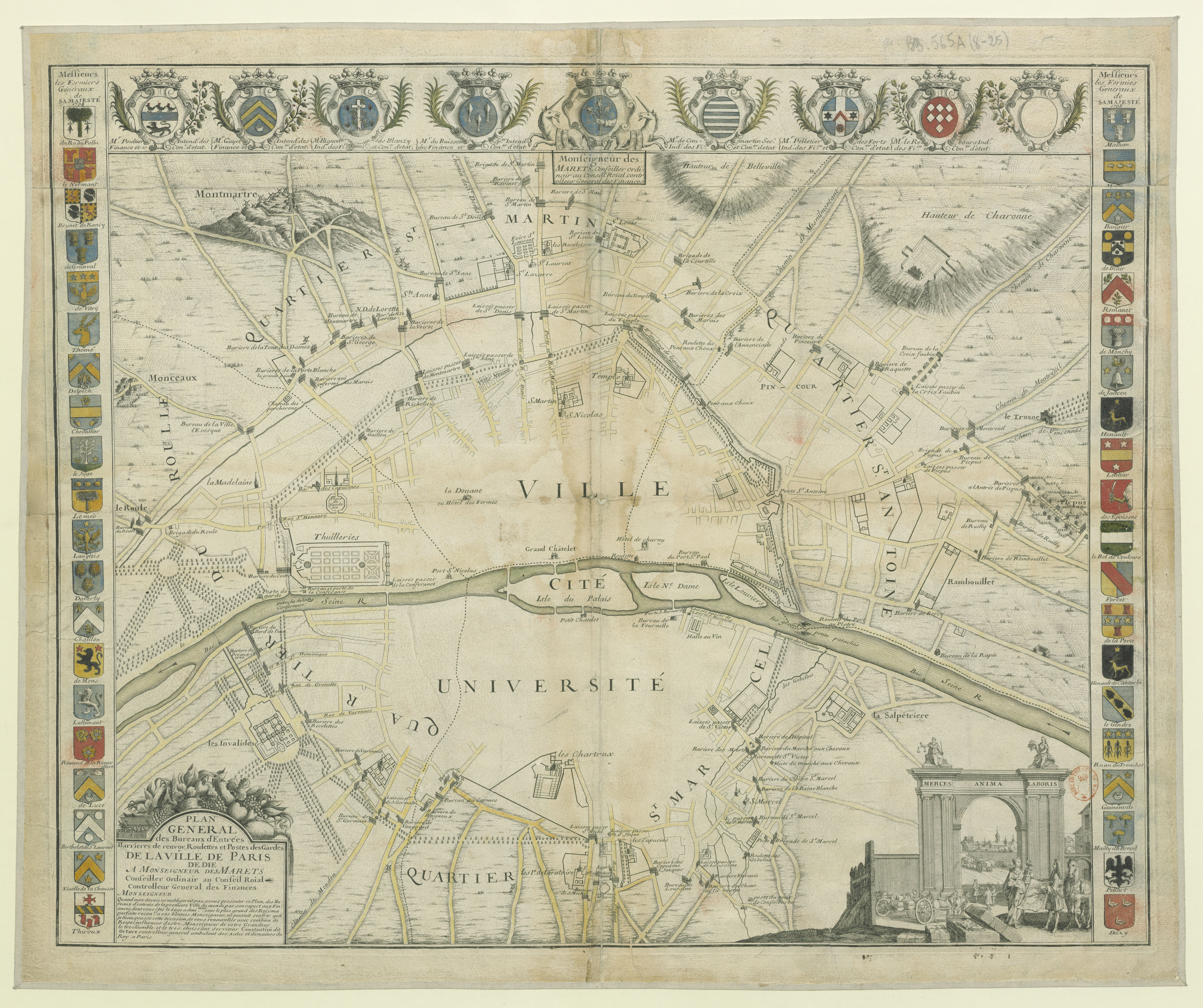 An old map of Paris.